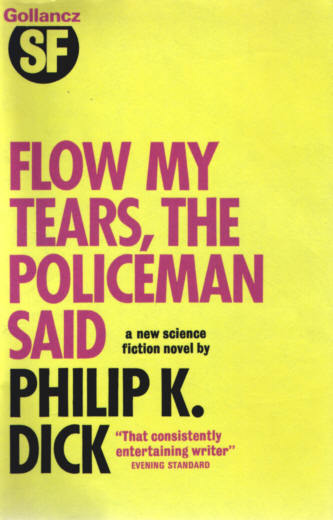 Flow My Tears, The Policeman Said